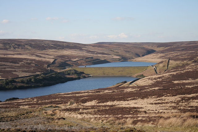 Walshaw Dean Middle and Upper Reservoir Looking from the shooting box